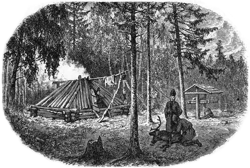 Forest Sami hut at Spänningsvallen, Arvidsjaur. Woodcut by P D Holm (1835-1903) from photograph by Lotten von Düben.